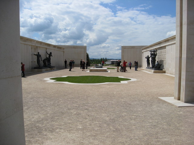 Armed Forces Memorial The National Memorial Arboretum, Alrewas.